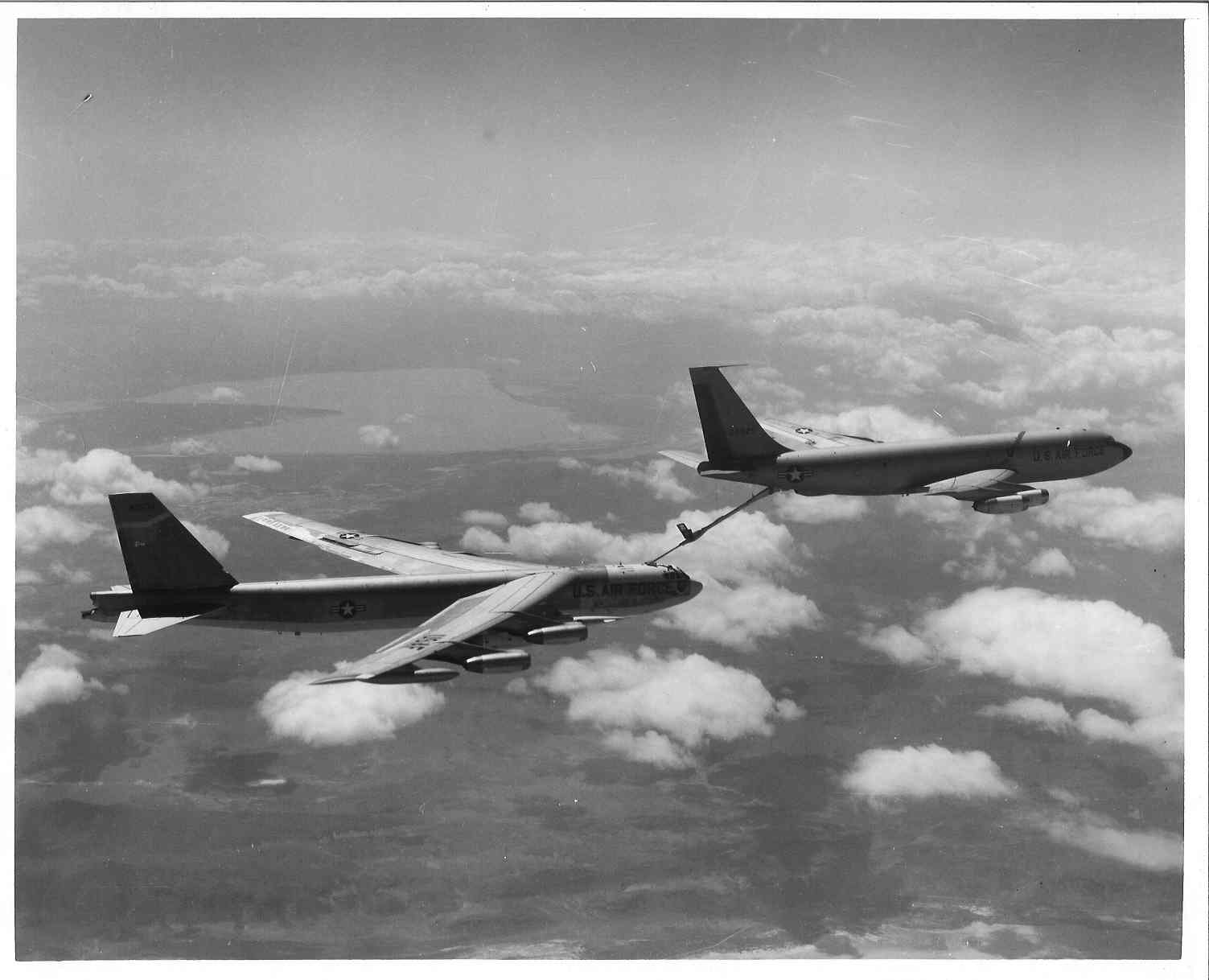 B-52 heavy bomber is refueled by a KC-135 STRATOTANKER.